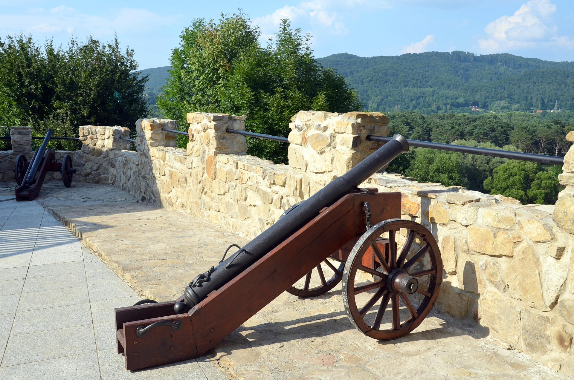 July 2013 in Sanok